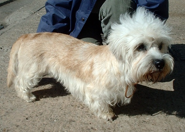 Schalulleke Lizzy Weaver owned and bred by Mr J. Heywood.